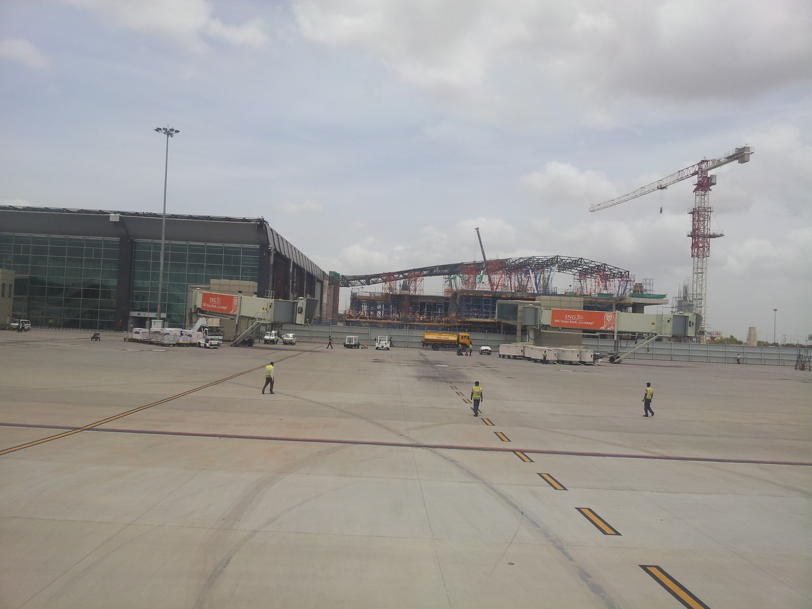 Bangalore Airport runway and surrounding area on 09June2012